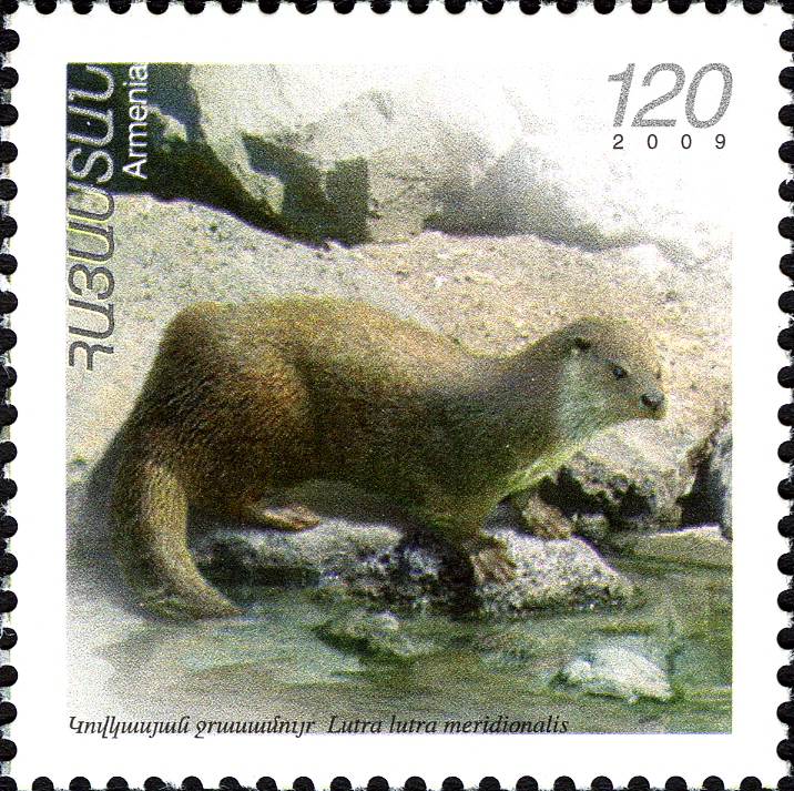 Flora & Fauna of Armenia (XIV issue) - Caucasian Otter